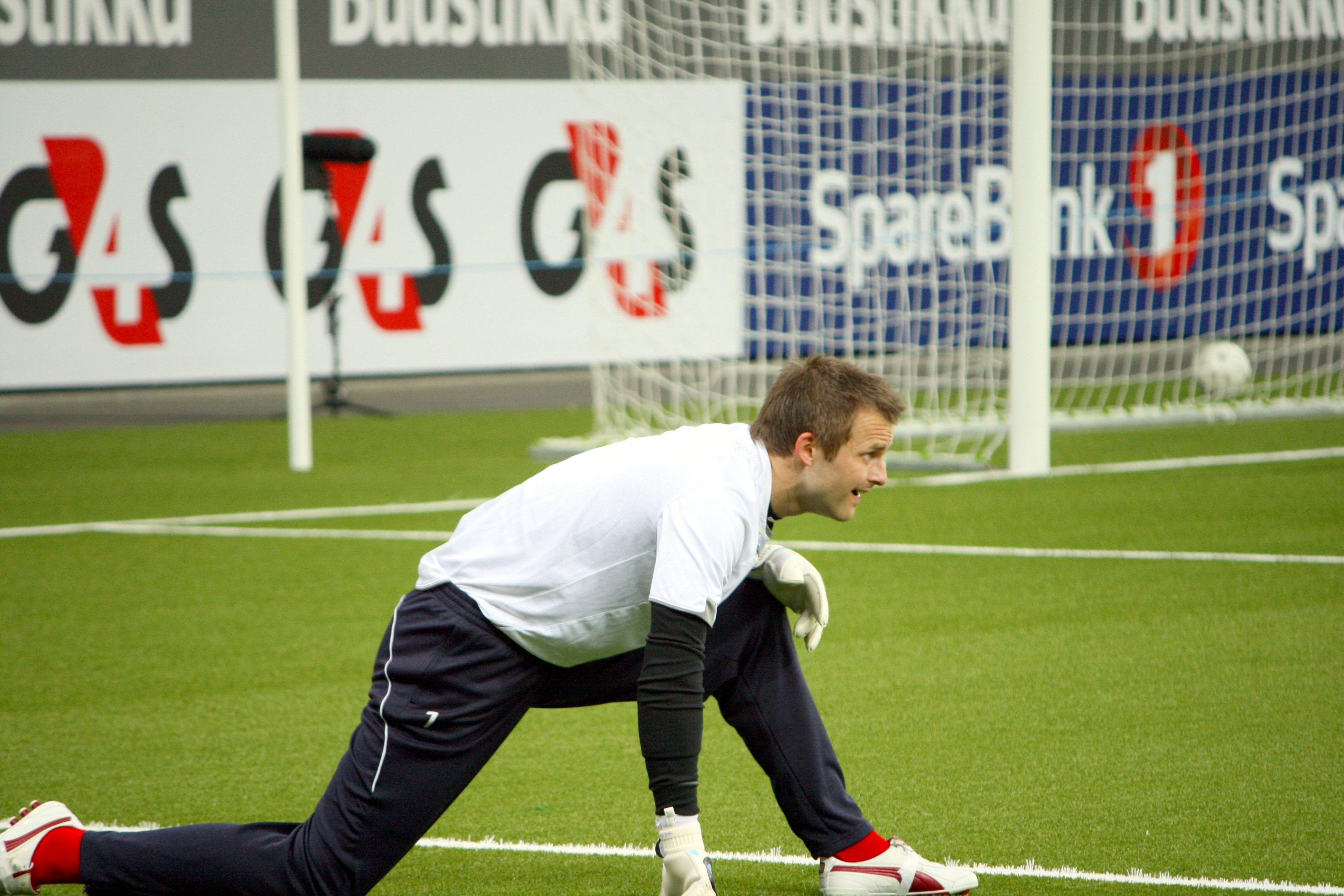 Norwegian footballer Jon Knudsen.